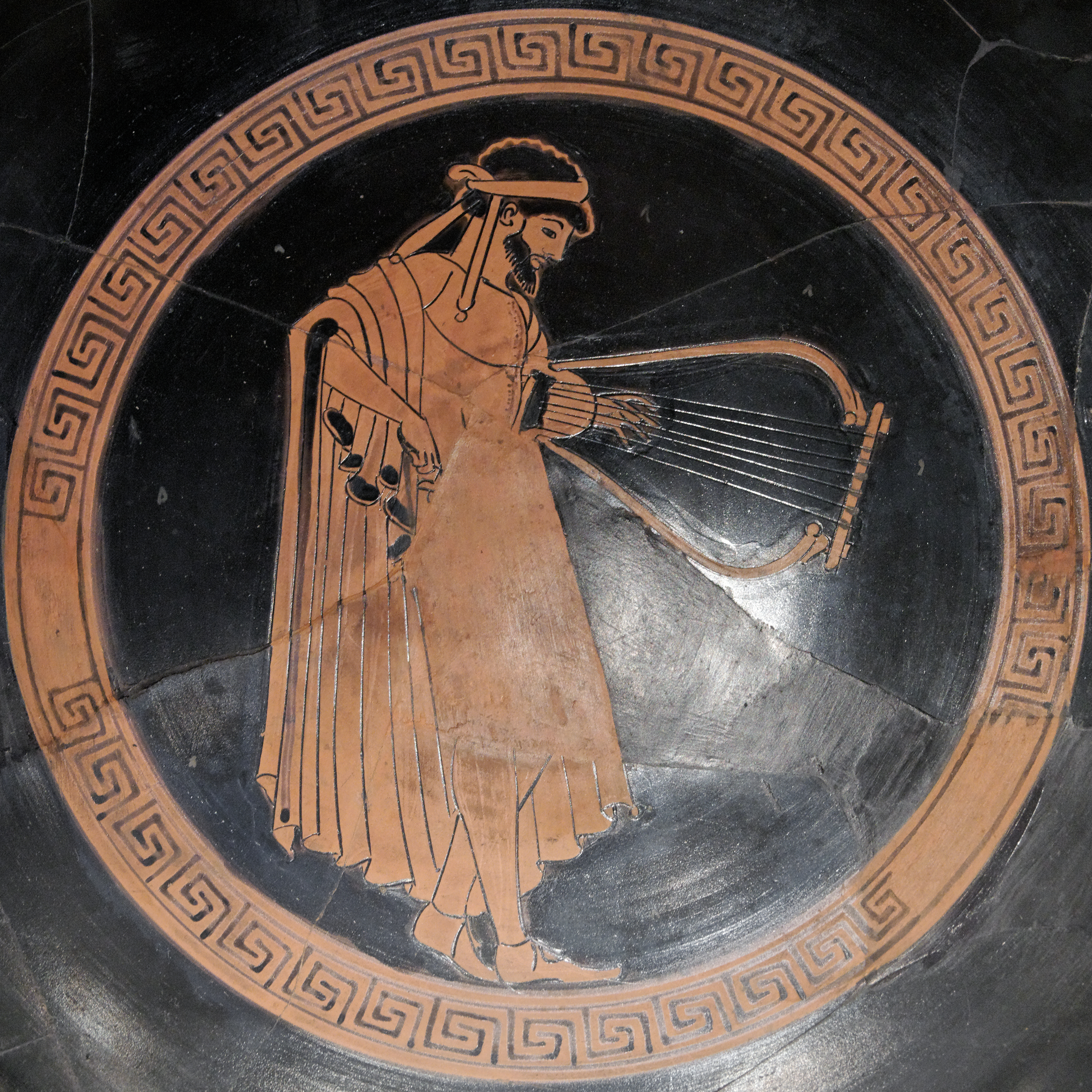 Man holding a lyre and a plektron. Tondo of an Attic red-figure kylix.